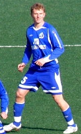 Denis Kolodin in action for FC Dinamo Moscow